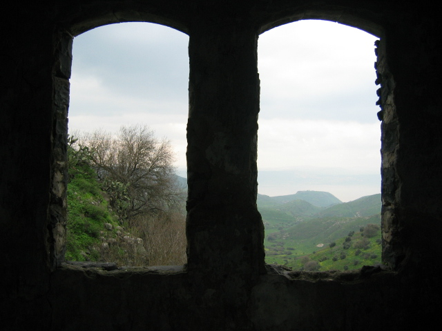 Ein Fiq, Golan Heights.